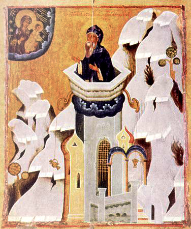 St. Simeon Stylites the Younger (ortodox icon)